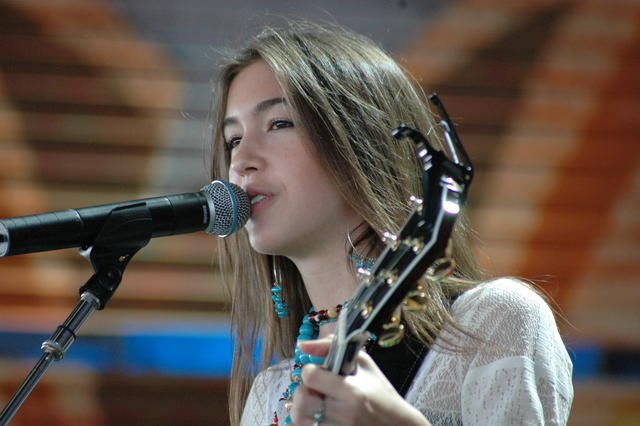 Kate Voegele - Farm Aid 2005 Chicago, Illinois USA, September 18th, 2005